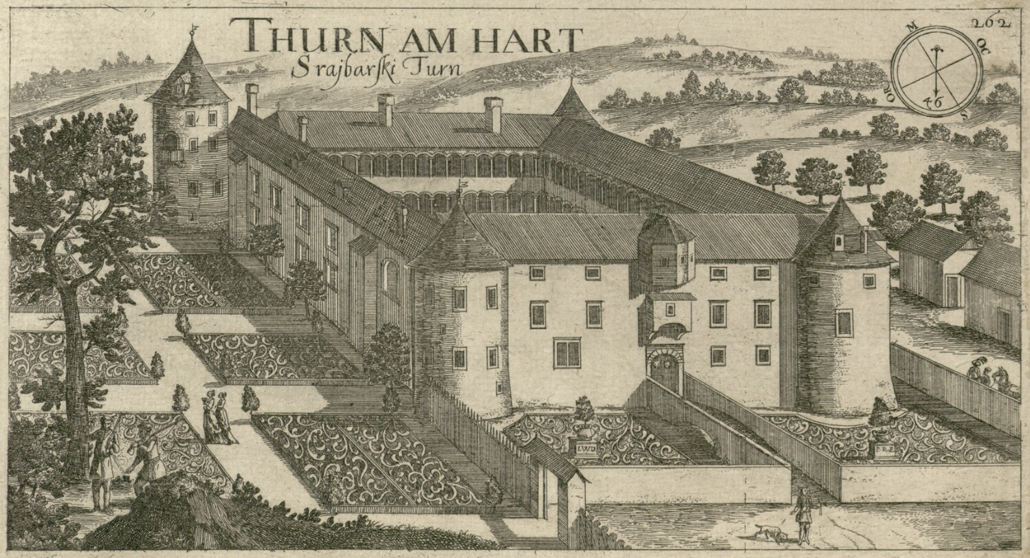 Šrajbarski Turn castle in 1689 Valvasor engraving